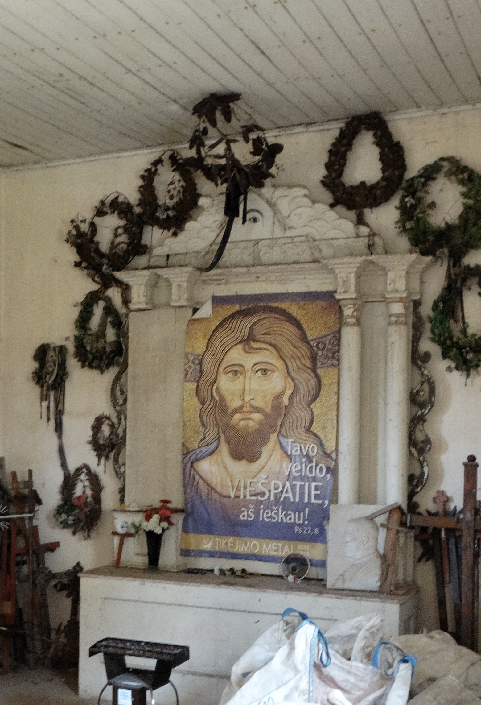 Chapel Vaižganto, Ukmergė, Lithuania